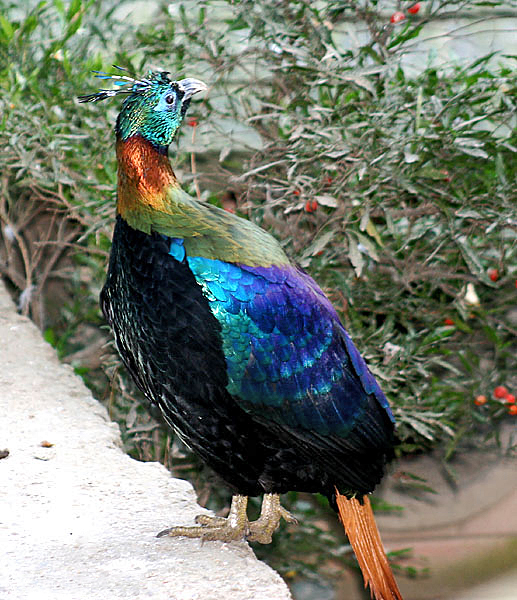 Himalayan Monal Lophophorus impejanus in an avairy in Simla, Himachal Pradesh, India.